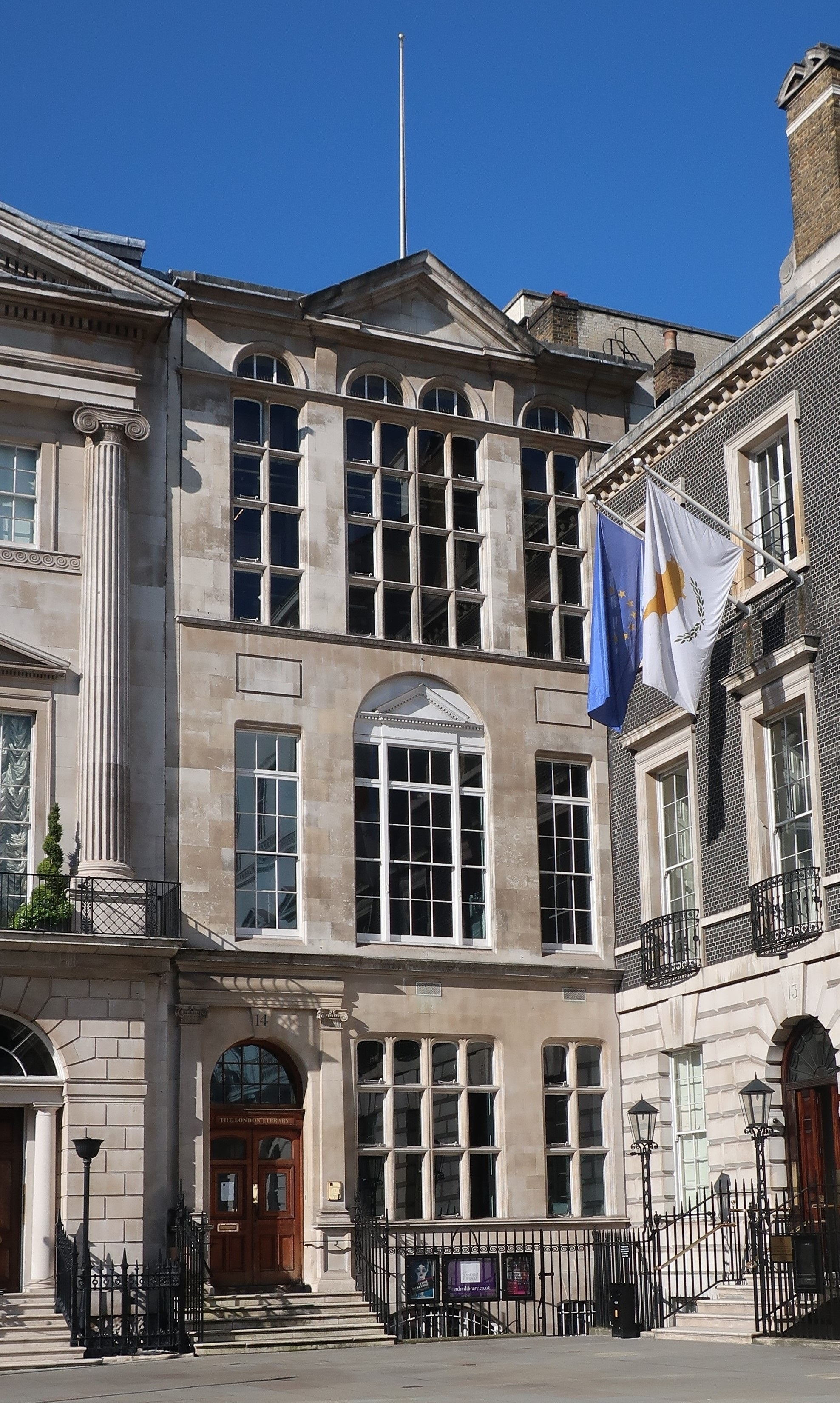 London Library, 14 St James's Square, London SW1. The adjacent building (13 St James's Square) is the High Commission of Cyprus.